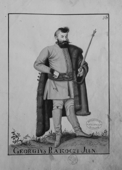 portrait from approx. 1720 by an unknown artist, from the Trachtencabinett von Siebenbürgen(Codex Rosenfeld) reproduced in Constanţa Vintilă Ghiţulescu (ed) Newcastle upon Tyne, Cambridge Scholars Publishing 2011, ch Mapping Transylvania in Costume Books, p.64 illustration 6